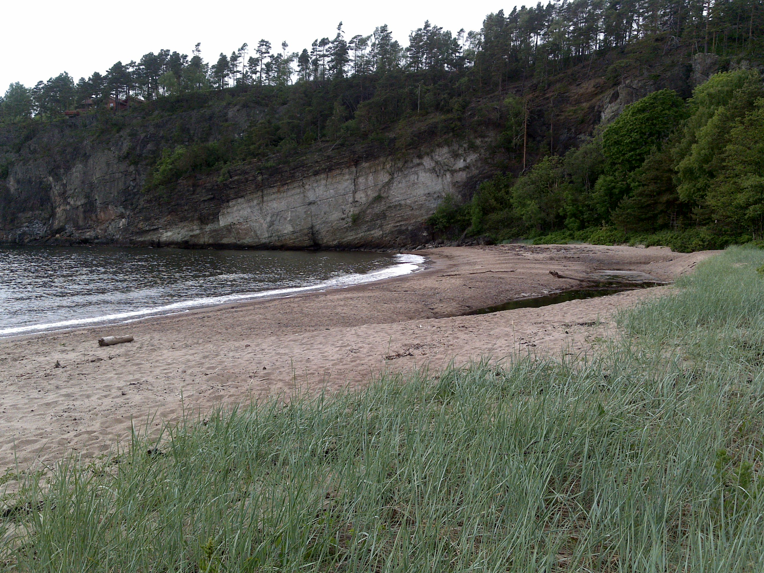 Ordovicium wall. ancient seabed deposits in layers, 400 mio ys old. By the Oslo fjord. Ersvika, Hurum municipality, Norway.